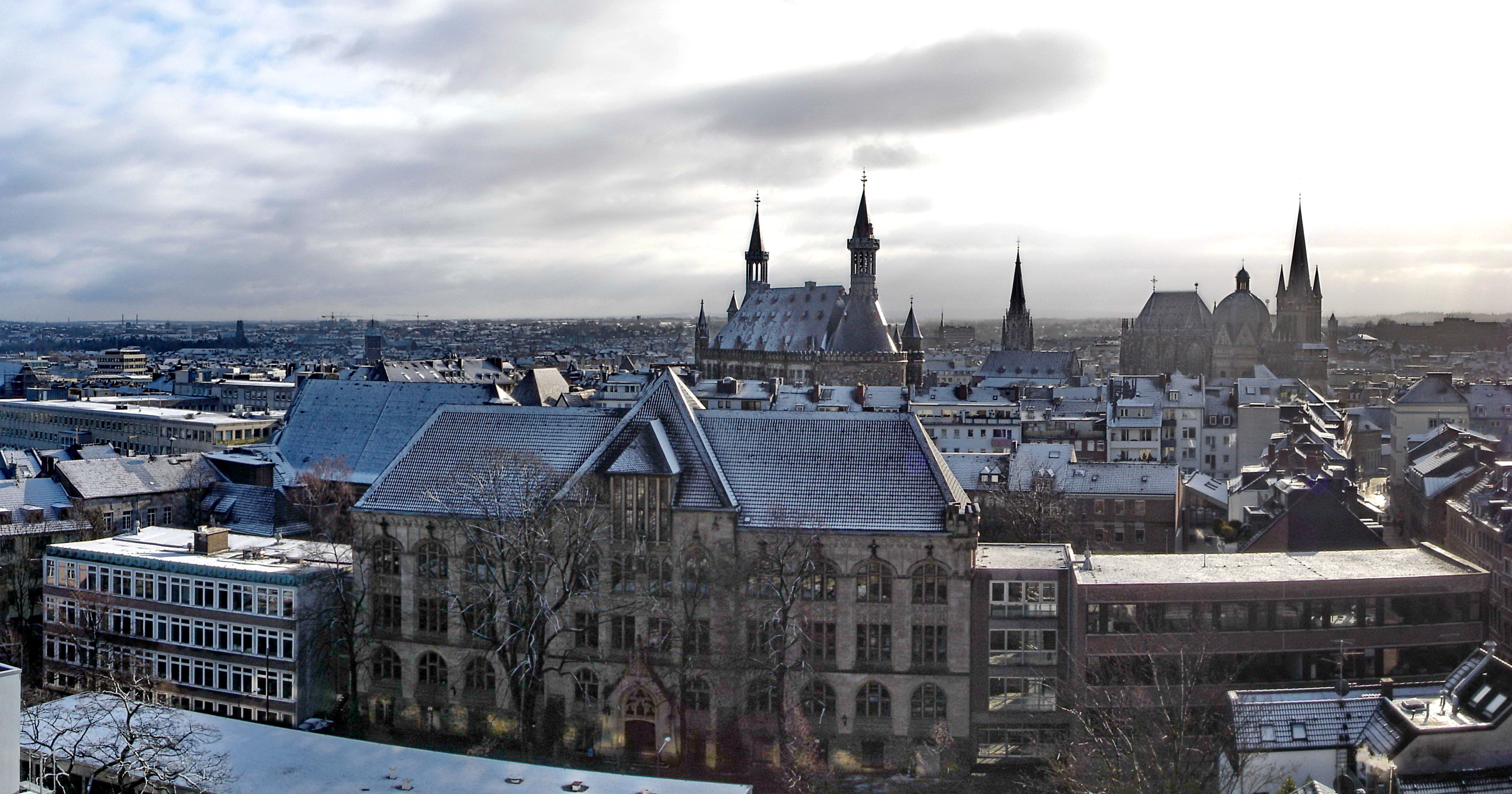 Panorama of Aachen downtown, including townhall and cathedral. Taken from the 8th floor of the Faculty of Mechanical Engineering building of the RWTH Aachen University (Eilfschornsteinstraße 18) Cropped for "Kaiser Karls Gymnasium" High School